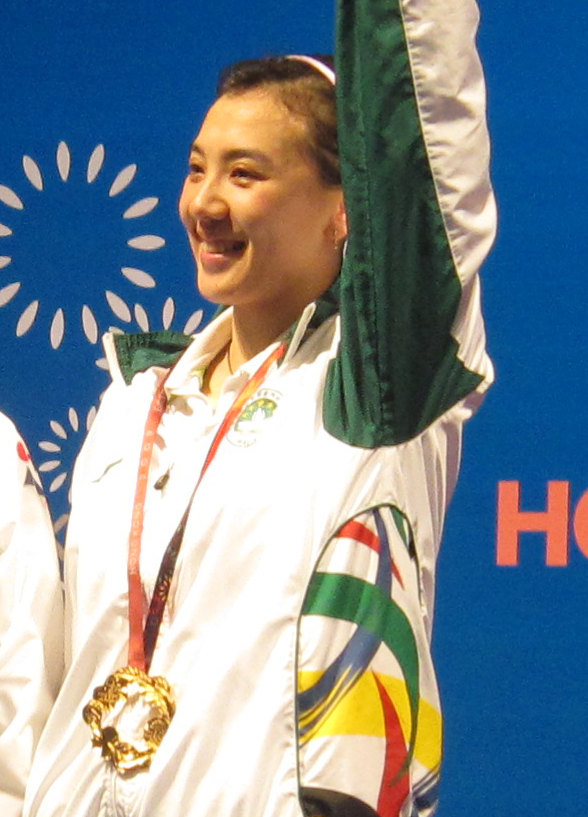 ZHANG Dan @ Hong Kong East Asian Games